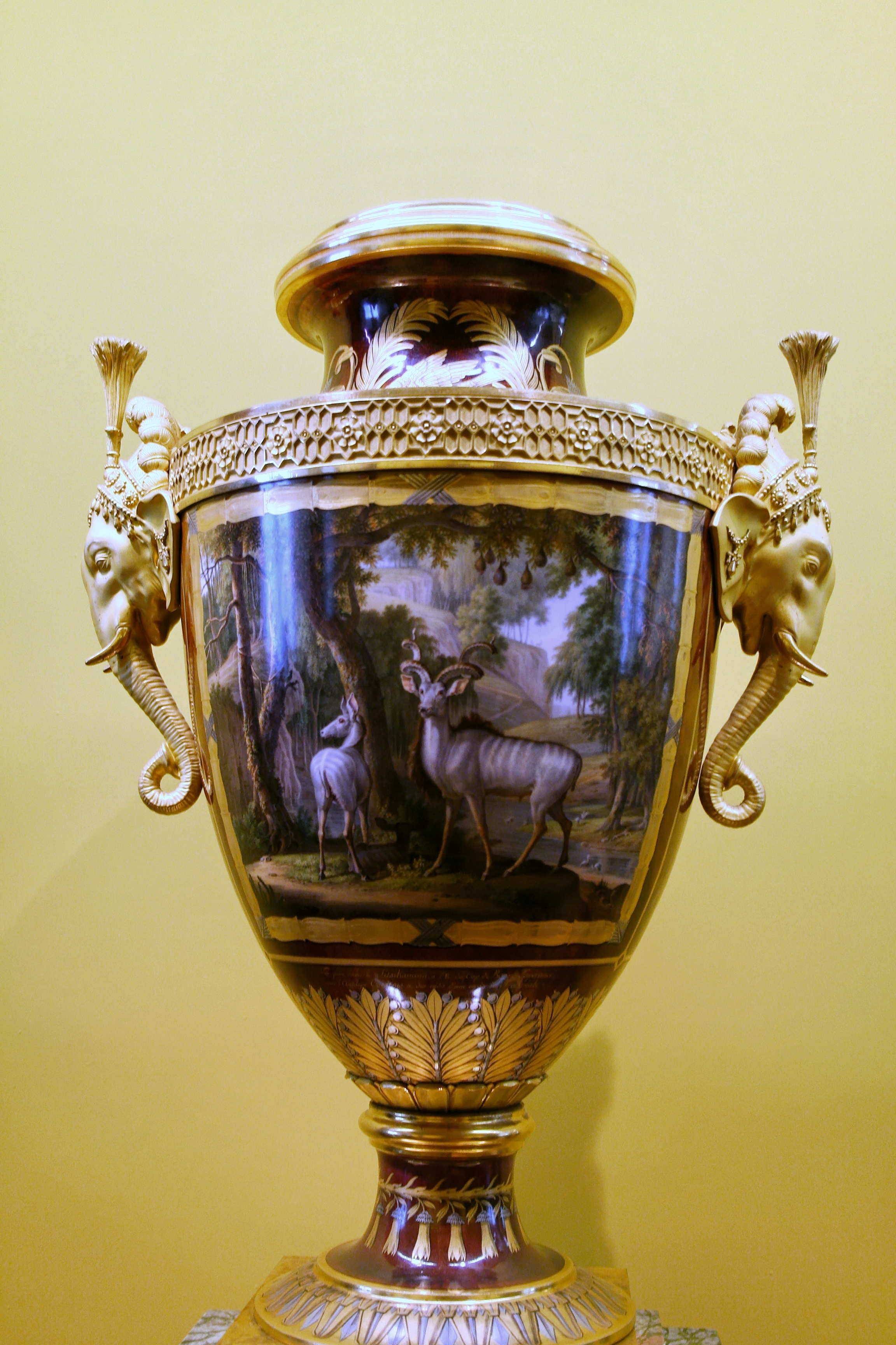 One of a pair of Clodion vases, given by Louis XVIII of France to Monsieur, his brother, future king Charles X. Hard-paste porcelain and gilt bronze, 1817. See also: OA 11340, the other element of the pair.